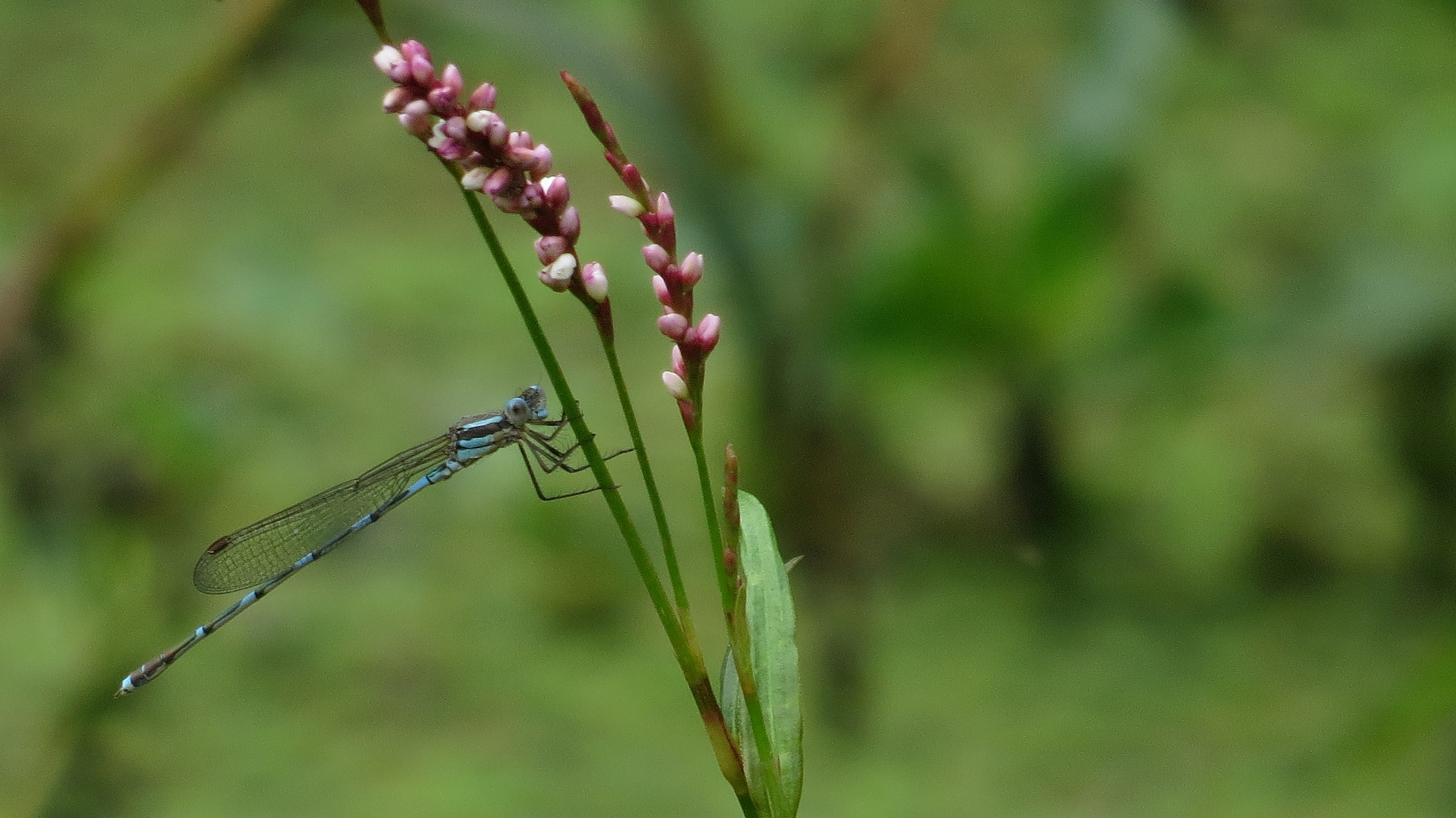 Male Wandering Ringtail, Austrolestes leda, a damselfly on Persicaria. Burnum Burnum Reserve, Jannali, NSW, Australia, April 2015.